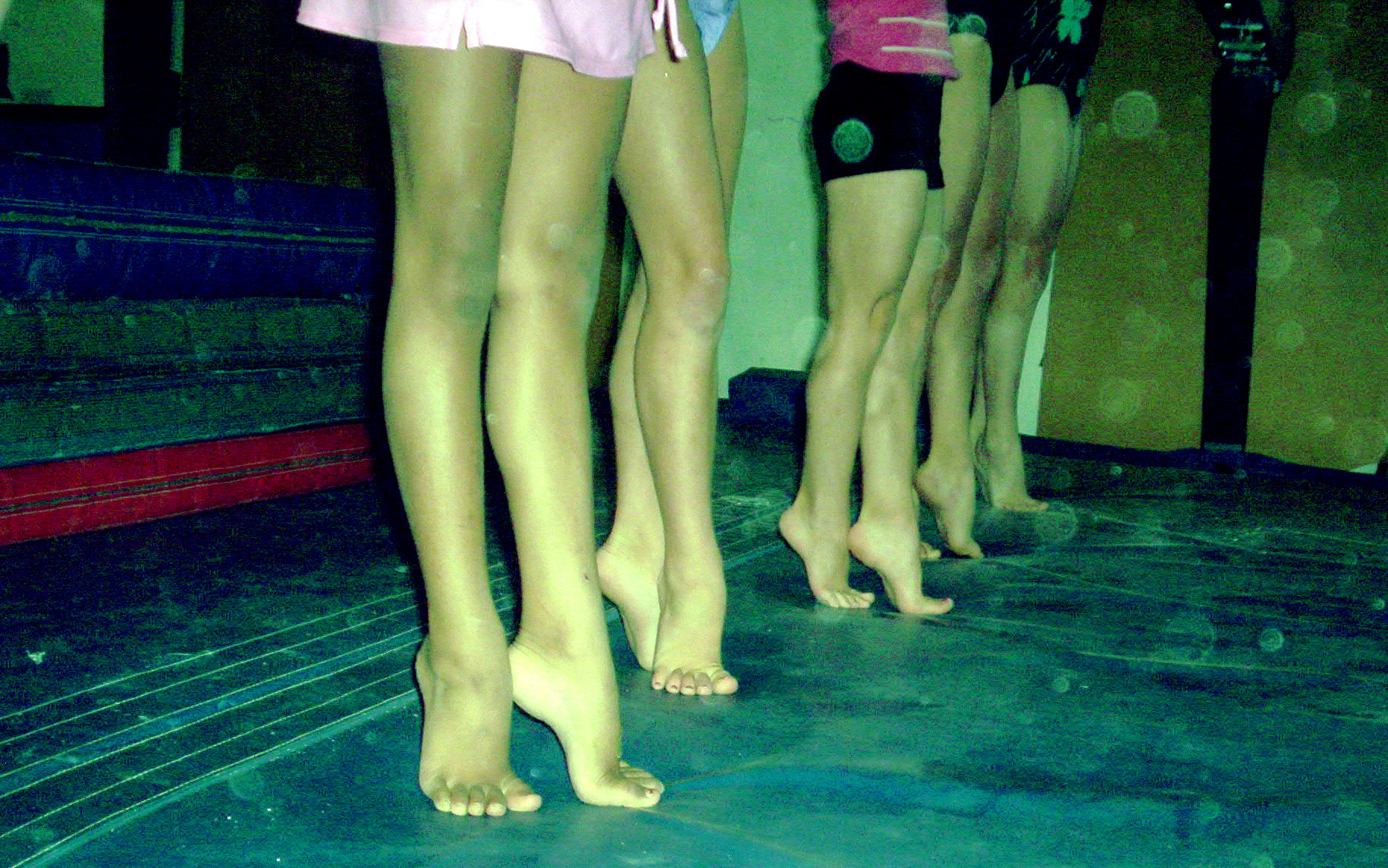 Young gymnasts on tiptoes.